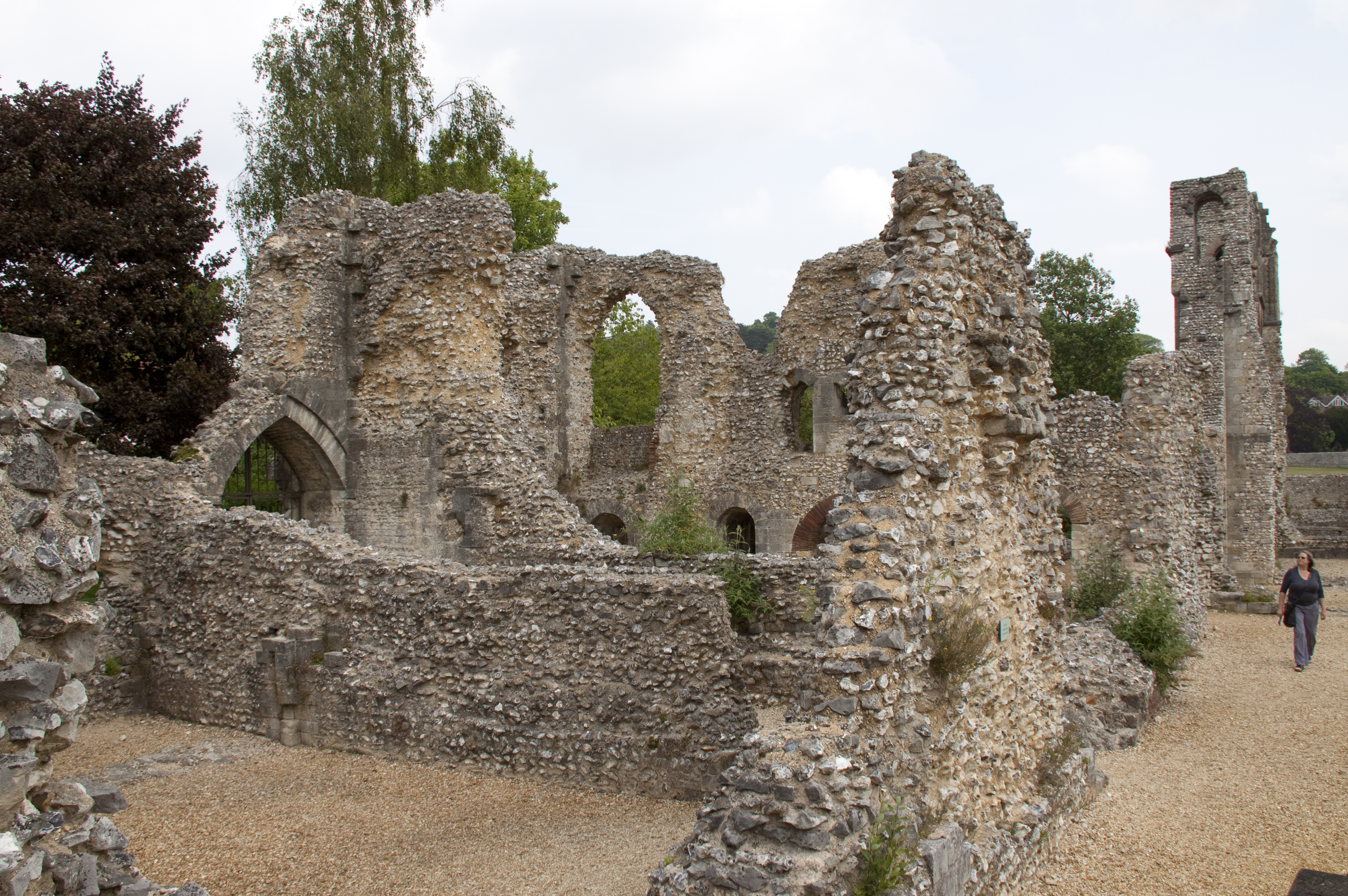 The ruins are the remains of Castle erected by Bishop Henry de Blois (1129-1171). Original the Bishops residence, Destroyed by Roundheads in 1646.